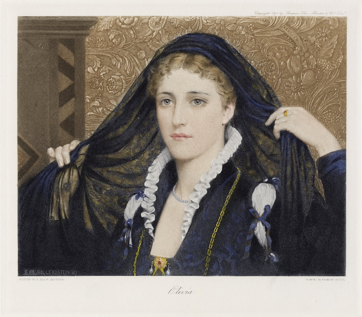 Image of Olivia, from The Graphic Gallery of Shakespeare's Heroines